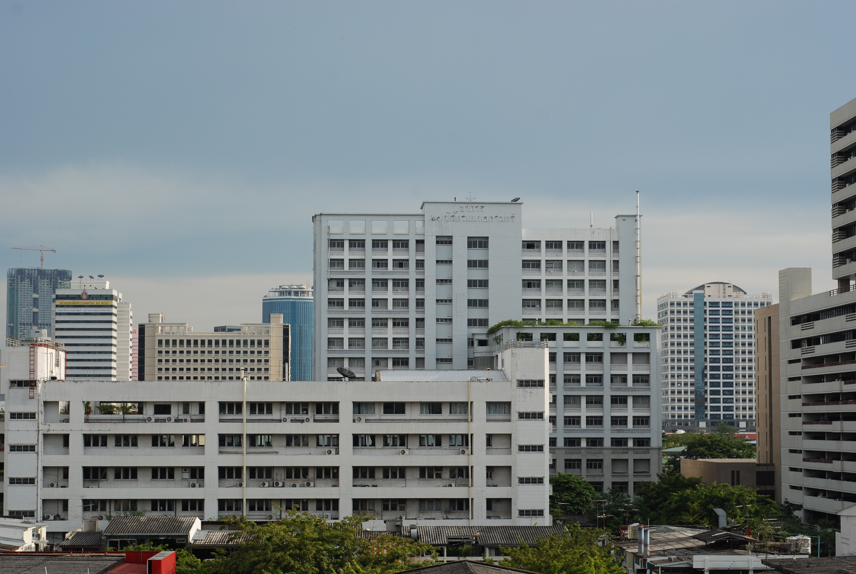 Faculty of Veterinary Science Chulalongkorn University